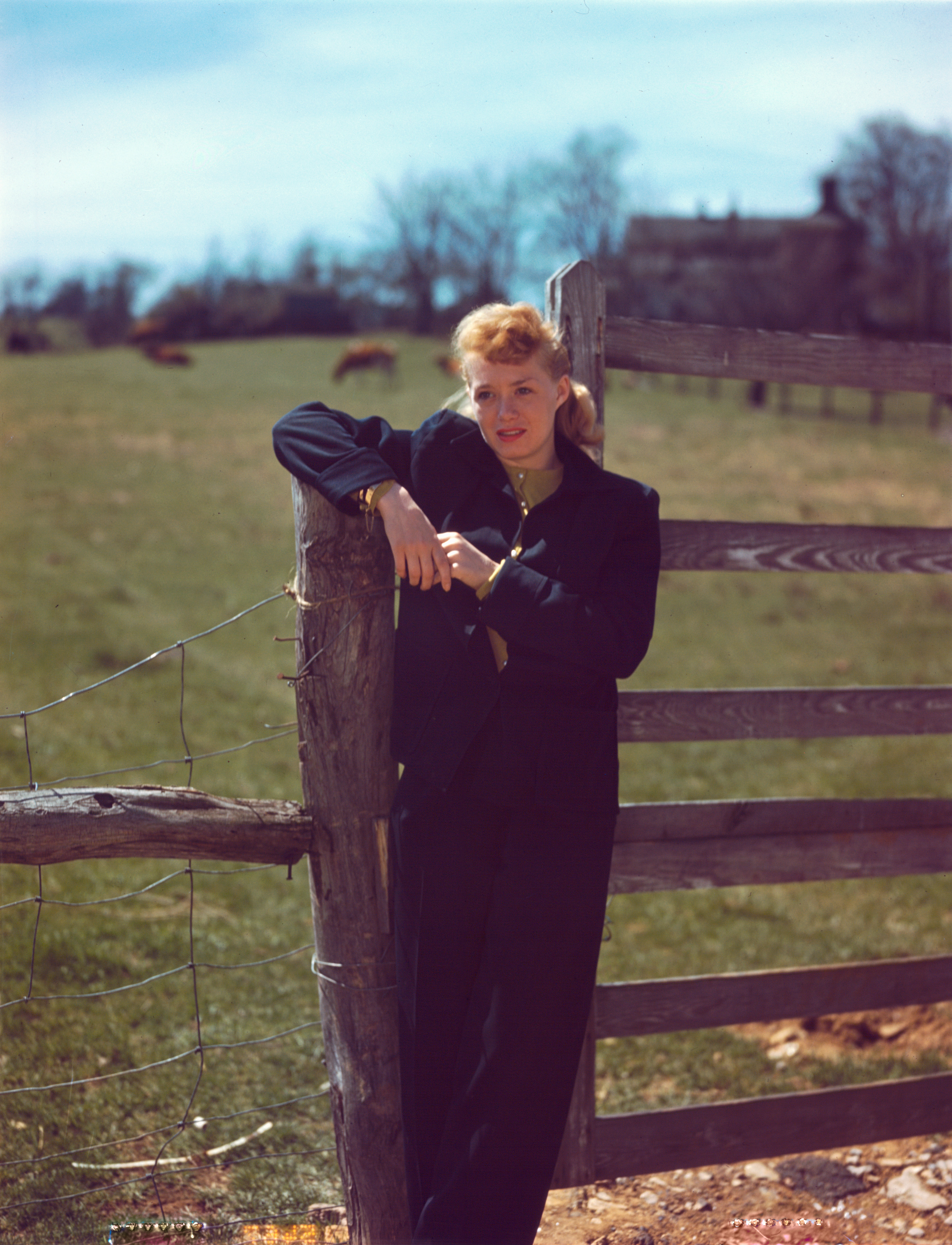 June Christy, 1947 or 1948. Photography by William P. Gottlieb